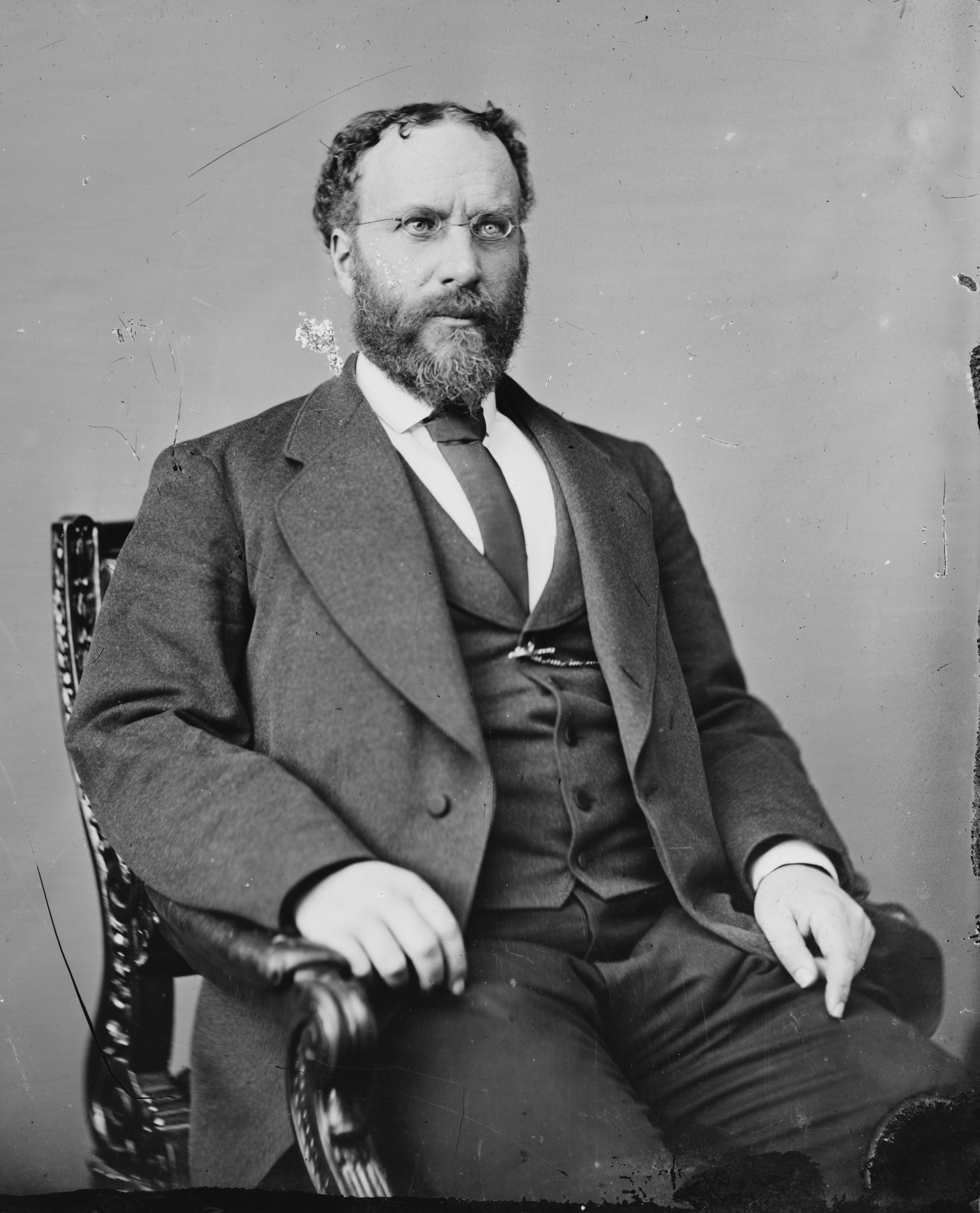 Robert Roosevelt. Library of Congress description: "Hon. R. B. Roosevelt of N.Y."